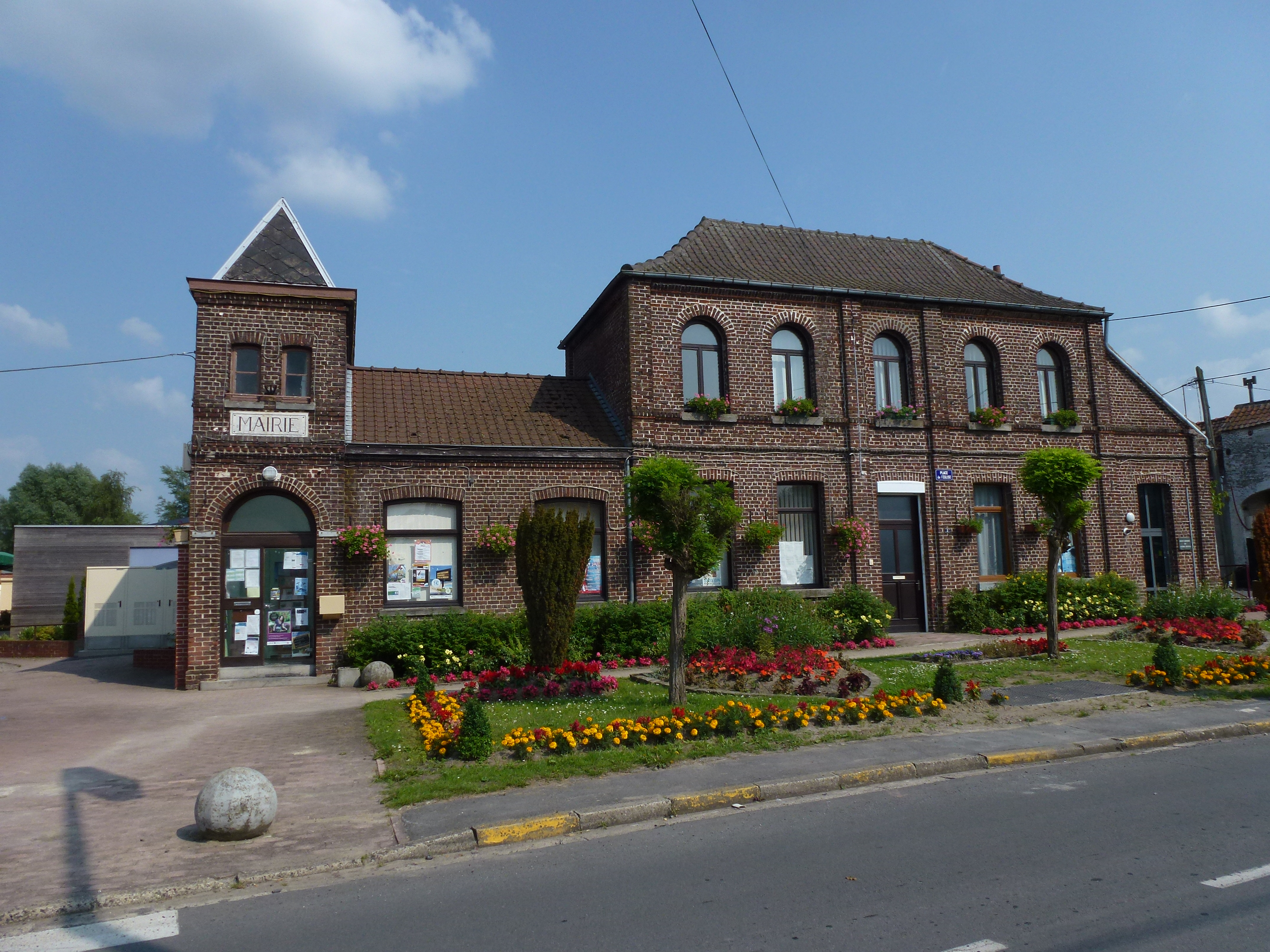 Château-l'Abbaye (Nord, Fr) mairie